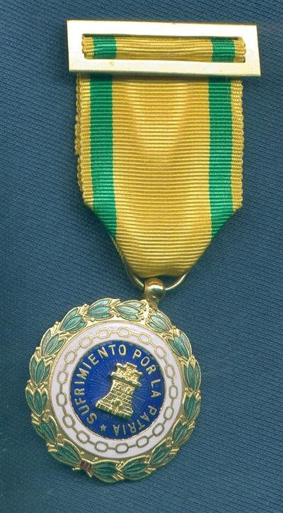 Wounded Medal (Spain)